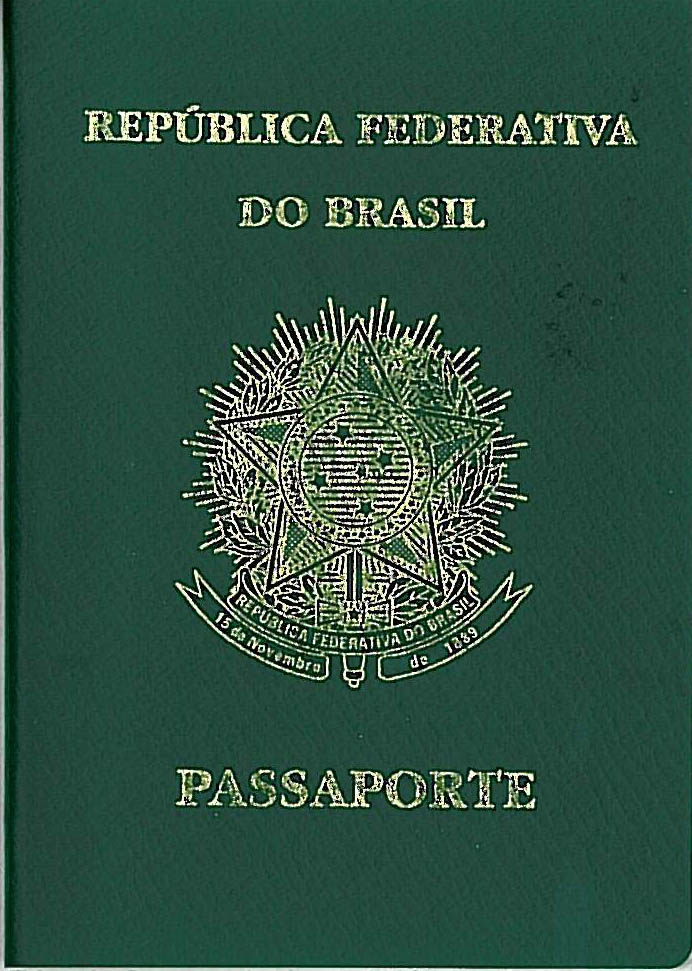 Cover of a Brazilian passport issued in the first semester of 2006.